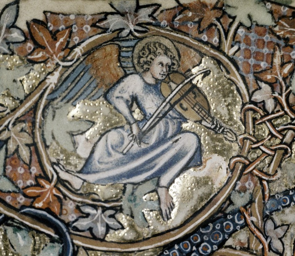 Vielle or fiddle from c. 1310 Ormesby Psalter, Bodleian Library, Manuscript: Douce 366, fol. 009v, roll210D frame1.